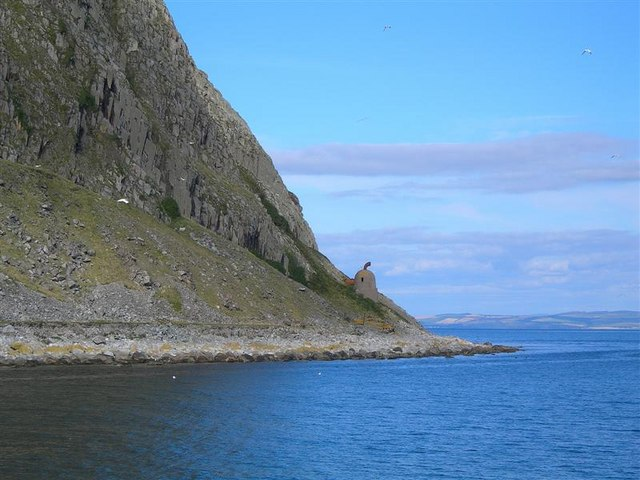 One of two disused foghorns on Ailsa Craig.